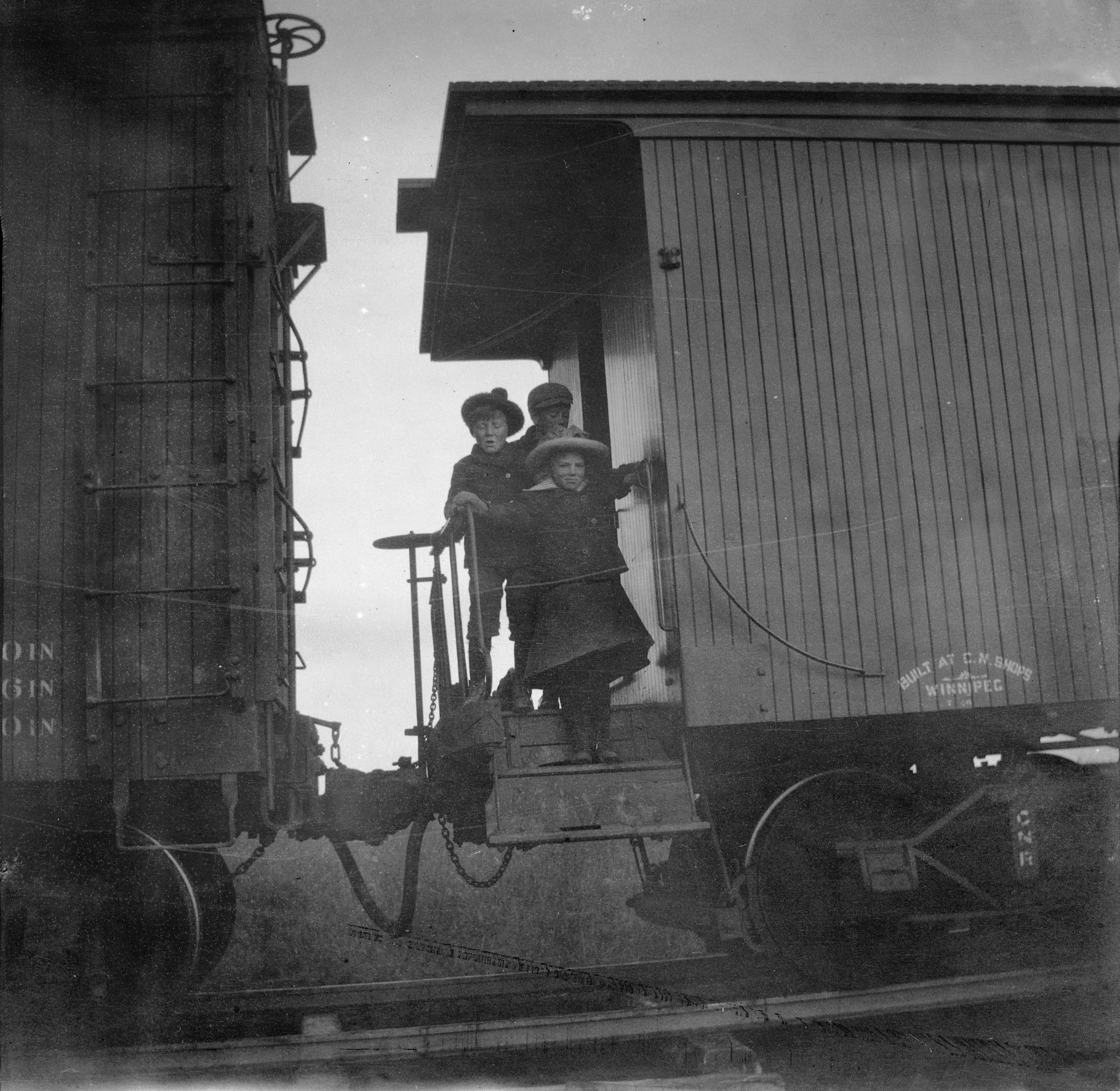 Alan, Mary, and Robert on a train, possibly Canadian Northern. From the Robert McKay Brebner fonds, Provincial Archives of Alberta, PR2009.0499/314. (Circa 1905 per the flickr captions/discussion. Not Canadian National as the children would have been adults circa 1918).